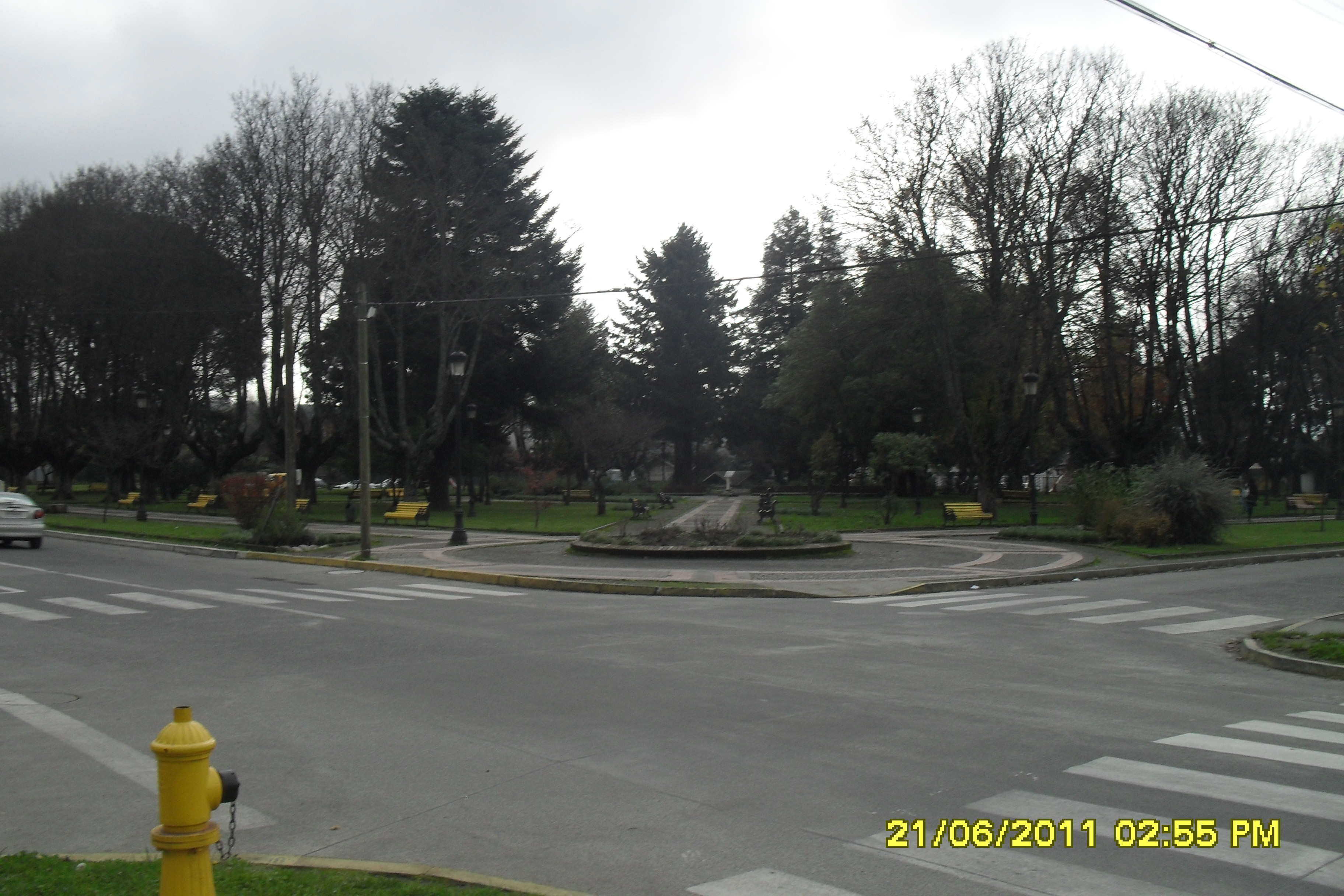 Edificios de Villarrica